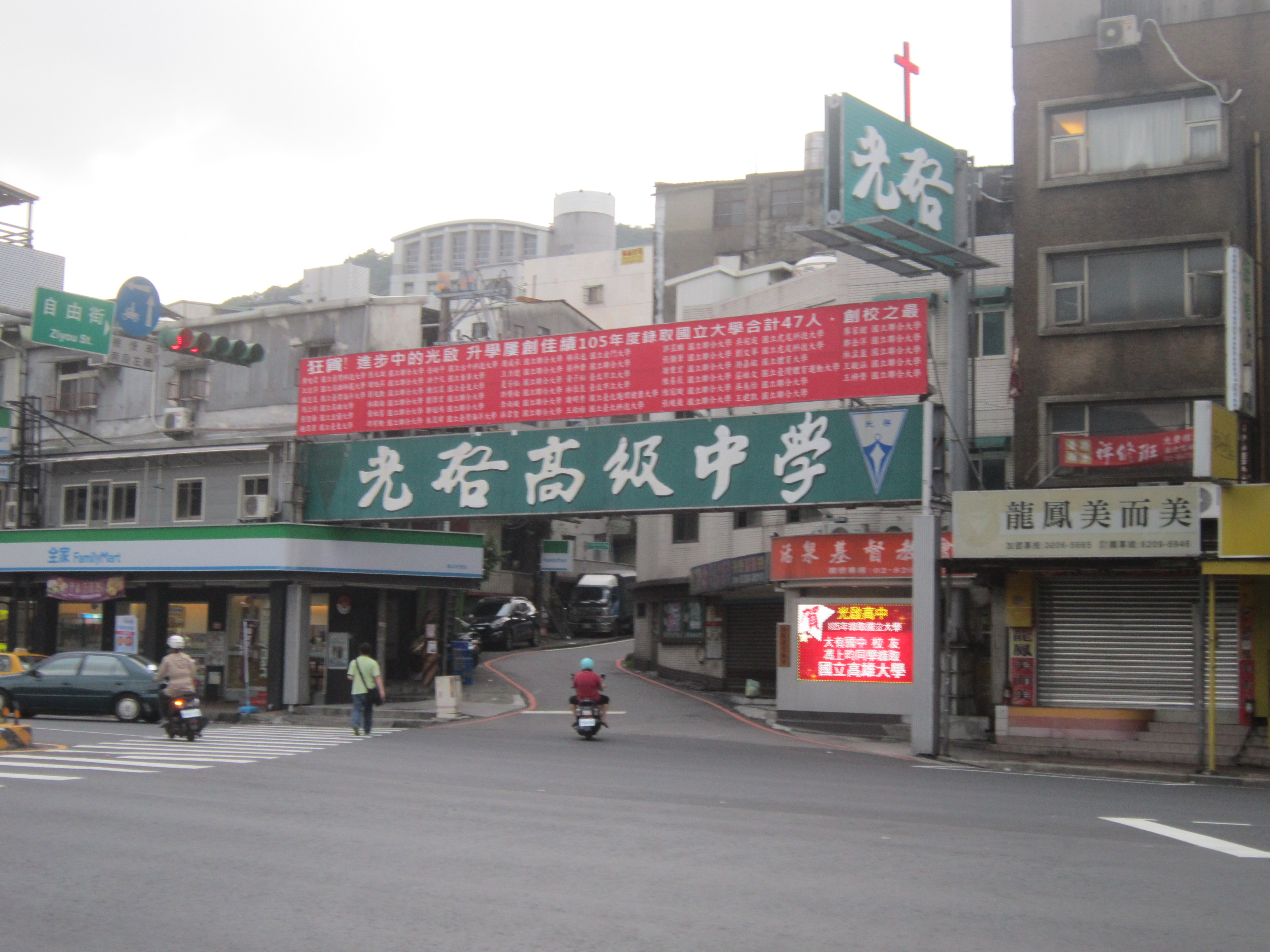 Paul_Hsu_Senior_High_School